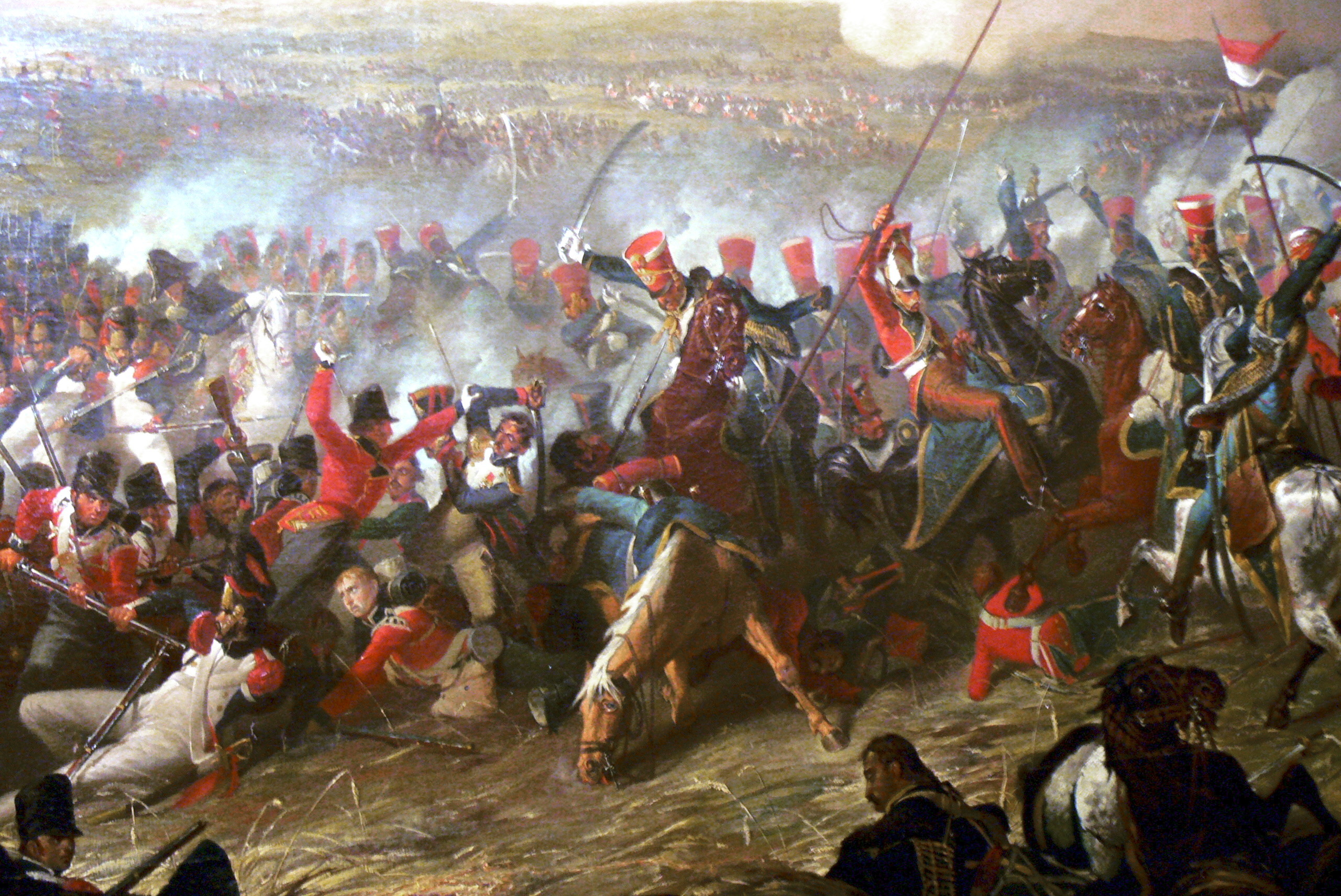 Plas Newydd (Anglesey). "Waterloo" - Painting by Denis Dighton: British Hussars of Viviene's Brigade.